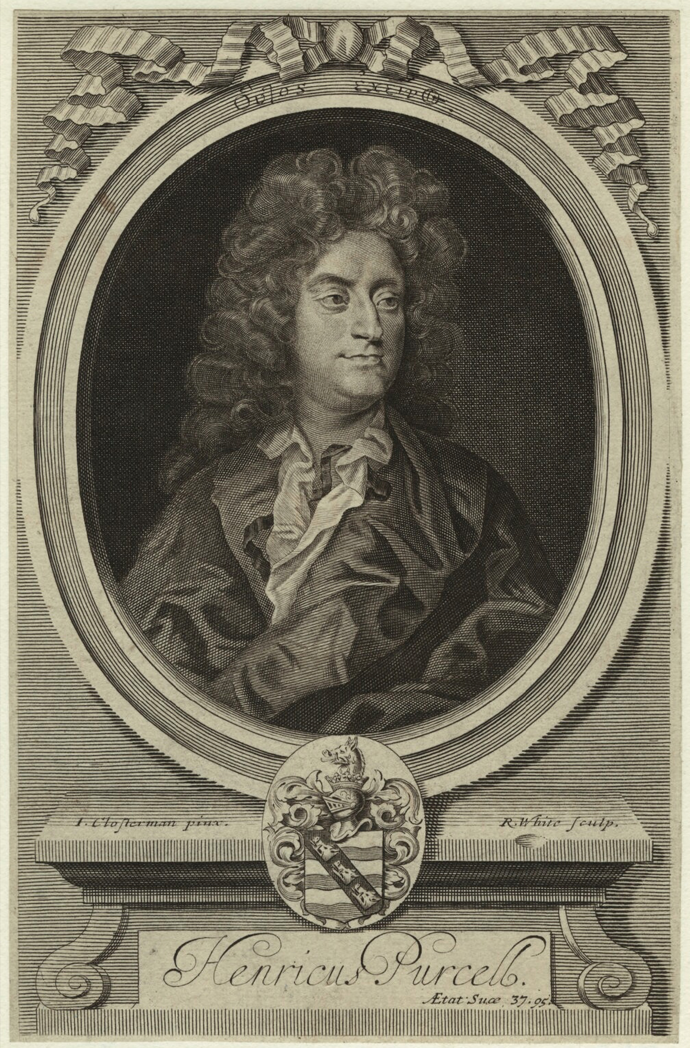 Portrait of Henry Purcell, engraved by R. White after Clostermann, from the second edition of Orpheus Britannicus, London: William Pearson 1706